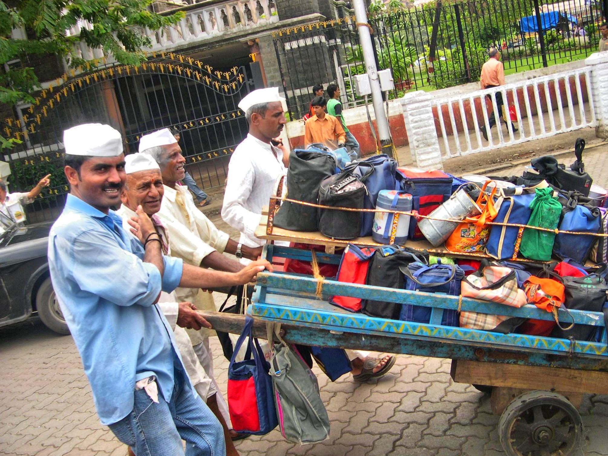 A charitable Trust started in 1890, The NMTBSA or commonly known as The Bombay Dabawalla has achieved 6 Sigma. They collect the Lunch Tiffin from home and deliver at the work place in a record time. Approximately 4,000,000 transactions are done per day with a work force of approximately 5000 employees.